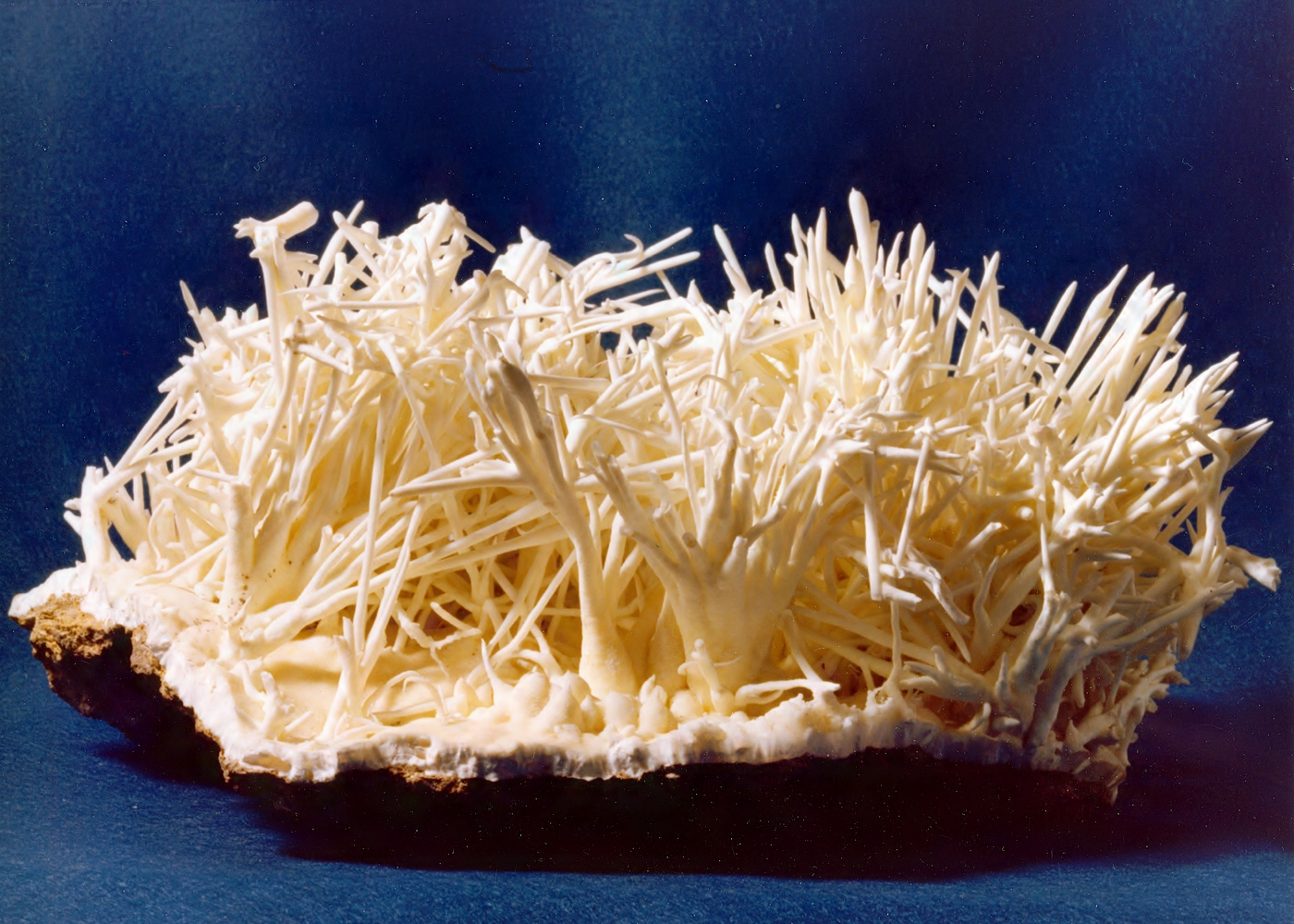 Aragonite. Aspen, Colorado. Bureau of Mines, Mineral Specimens C\01619.